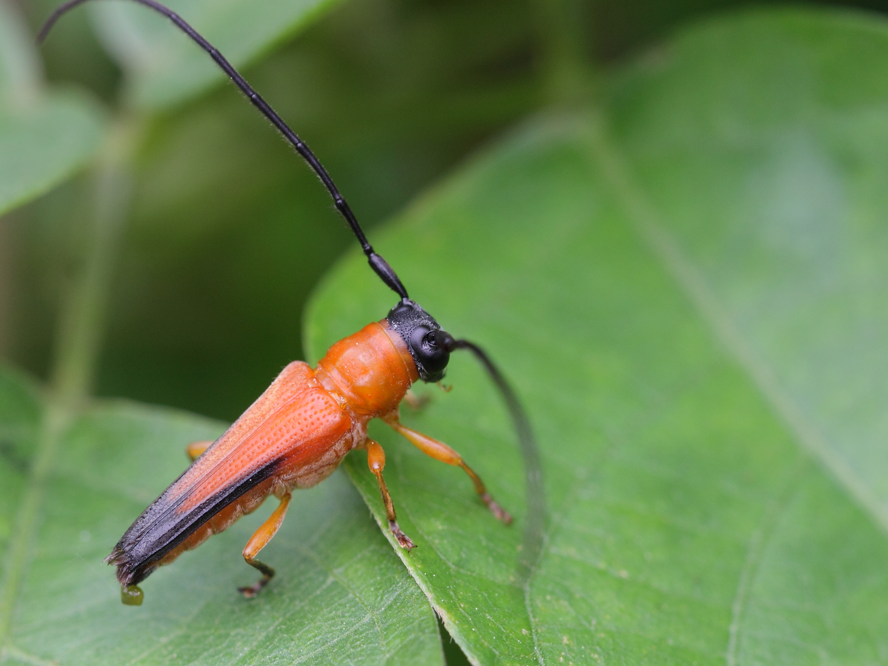 Phylum: Arthropoda Subphylum: Hexapoda Class: Insecta (insects, Insekten) Subclass: Pterygota Order: Coleoptera (beetles, Käfer) Suborder: Polyphaga Superfamily: Chrysomeloidea Family: Cerambycidae (longhorn beetles, Bockkäfer) Subfamilia: Lamiinae (flat-faced longhorns, Weberböcke) Tribus: Phytoeciini Genus: Nupserha THOMSON, 1860 probably: Nupserha fricator? [det. Charlie Barnes, 2013, based on photos] distribution: Malay Peninsular (incl. Singapore), Sumatra?, W-Java, and? Indonesia, W-Java, 10km S Tangerang: BSD (Kampung garden), 45m asl., 26.05.2011 IMG_1845